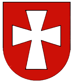 Coat of arms of Ebersweier in Durbach